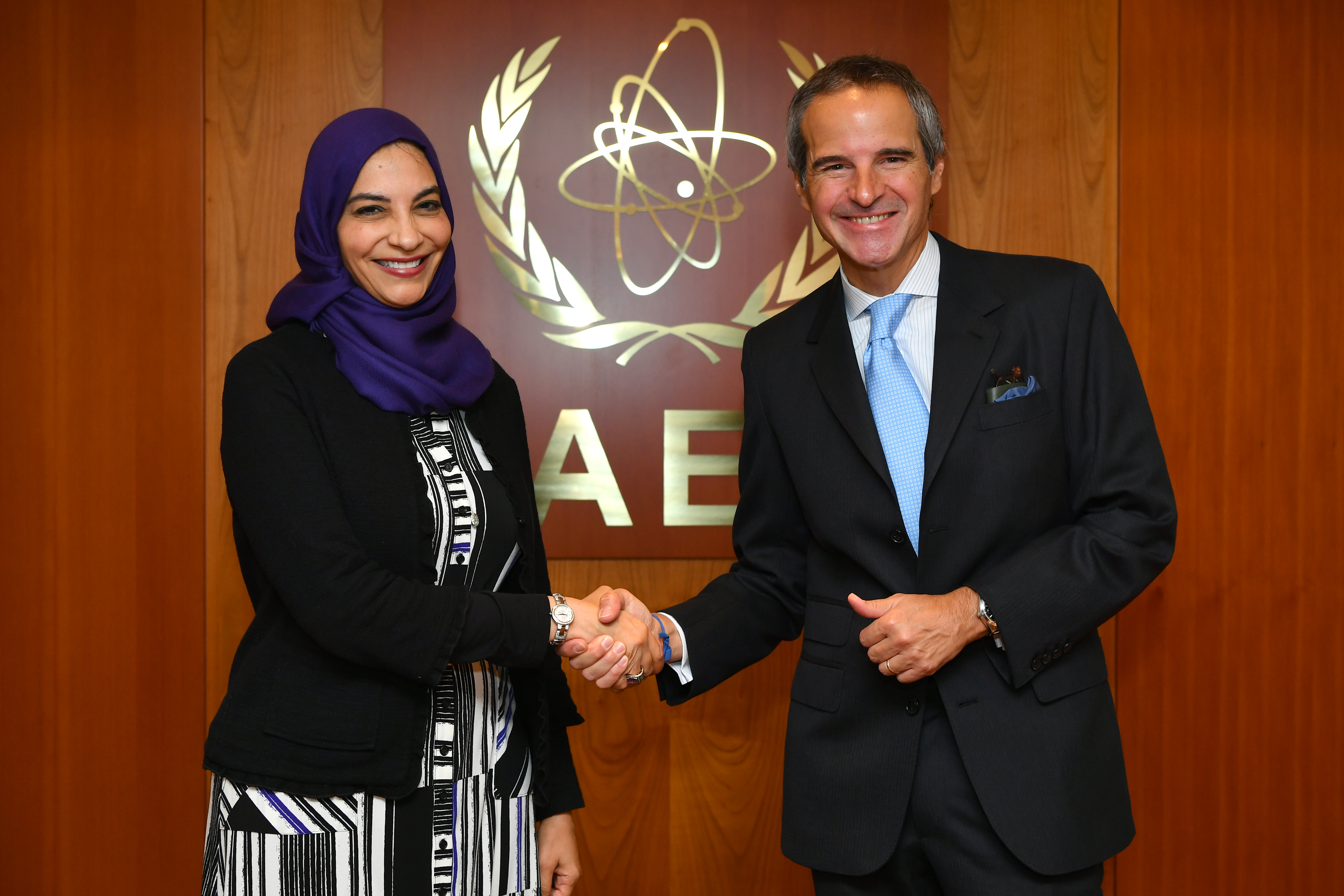 IAEA Director General Rafael Mariano Grossi met with Dr. Hayat Sindi, Vice President/Chairperson and Chief Advisor to the Islamic Development Bank (IsDB) President, Science, Technology and Innovation, during her official visit at the Agency headquarters in Vienna, Austria. 16 January 2020 Photo Credit: Dean Calma / IAEA Participants from Islamic Development Bank: Dr. Hayat Sindi Dr Ammar Abdo Ahmed, Senior Global Health Specialist Mr Khemais El-Gazzah, Senior Advisor to the Director General of the Islamic Solidarity Fund for Development IAEA Lisa Stevens, IAEA Director, Programme of Action for Cancer Therapy (PACT) Anja Nitzsche, IAEA Section Head, Resource Mobilization Section, Division of Programme of Action for Cancer Therapy (PACT) Ewelina Hilger, Special Advisor to the Director General Constanze Westervoss, Senior Coordination Officer